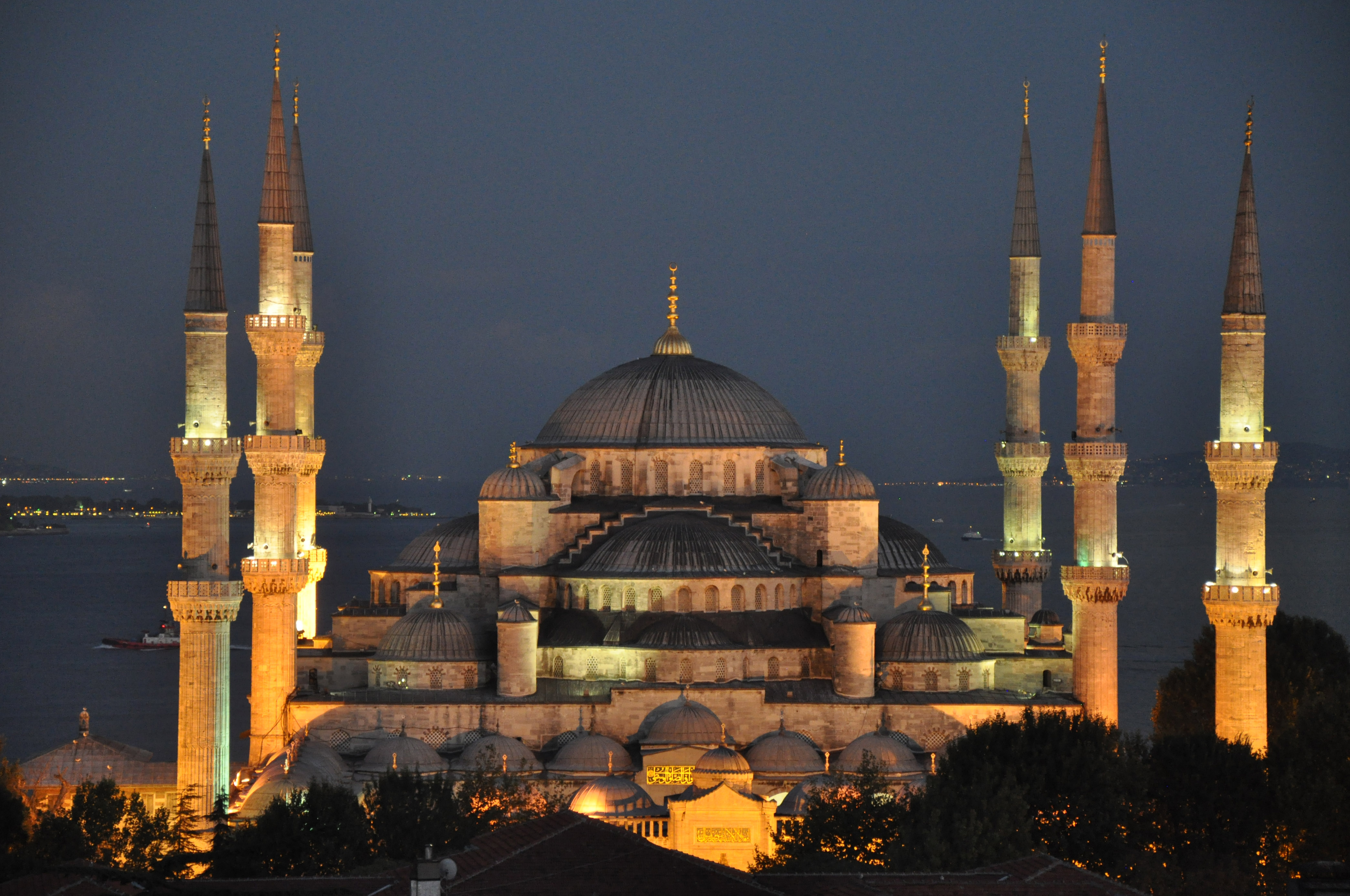 The Sultan Ahmed Mosque (Turkish: Sultanahmet Camii) is an historical mosque in Istanbul. The mosque is popularly known as the Blue Mosque for the blue tiles adorning the walls of its interior. It was built from 1609 to 1616, during the rule of Ahmed I. Like many other mosques, it also comprises a tomb of the founder, a madrasah and a hospice. While still used as a mosque, the Sultan Ahmed Mosque has also become a popular tourist attraction.